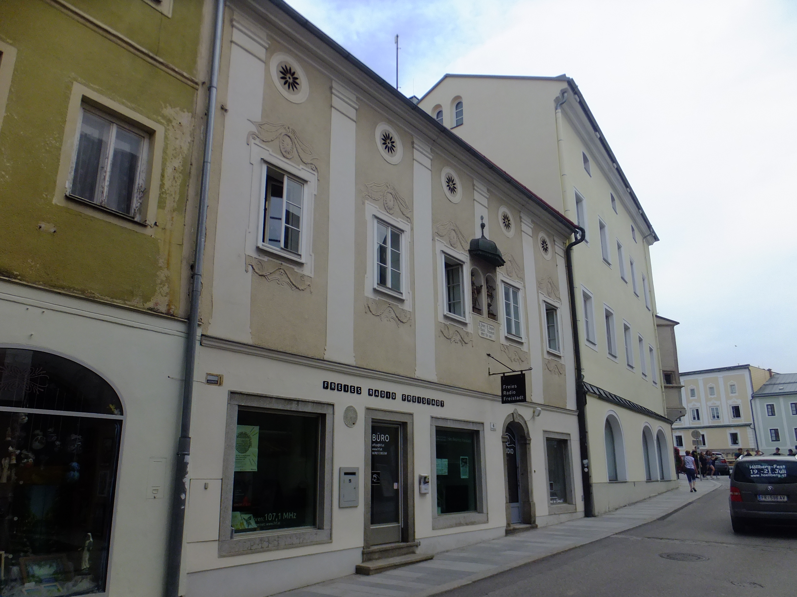 House No. 4 on Pfarrgasse in Freistadt, the seat of the local radio